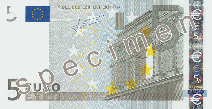 Obverse side of the €5 banknote